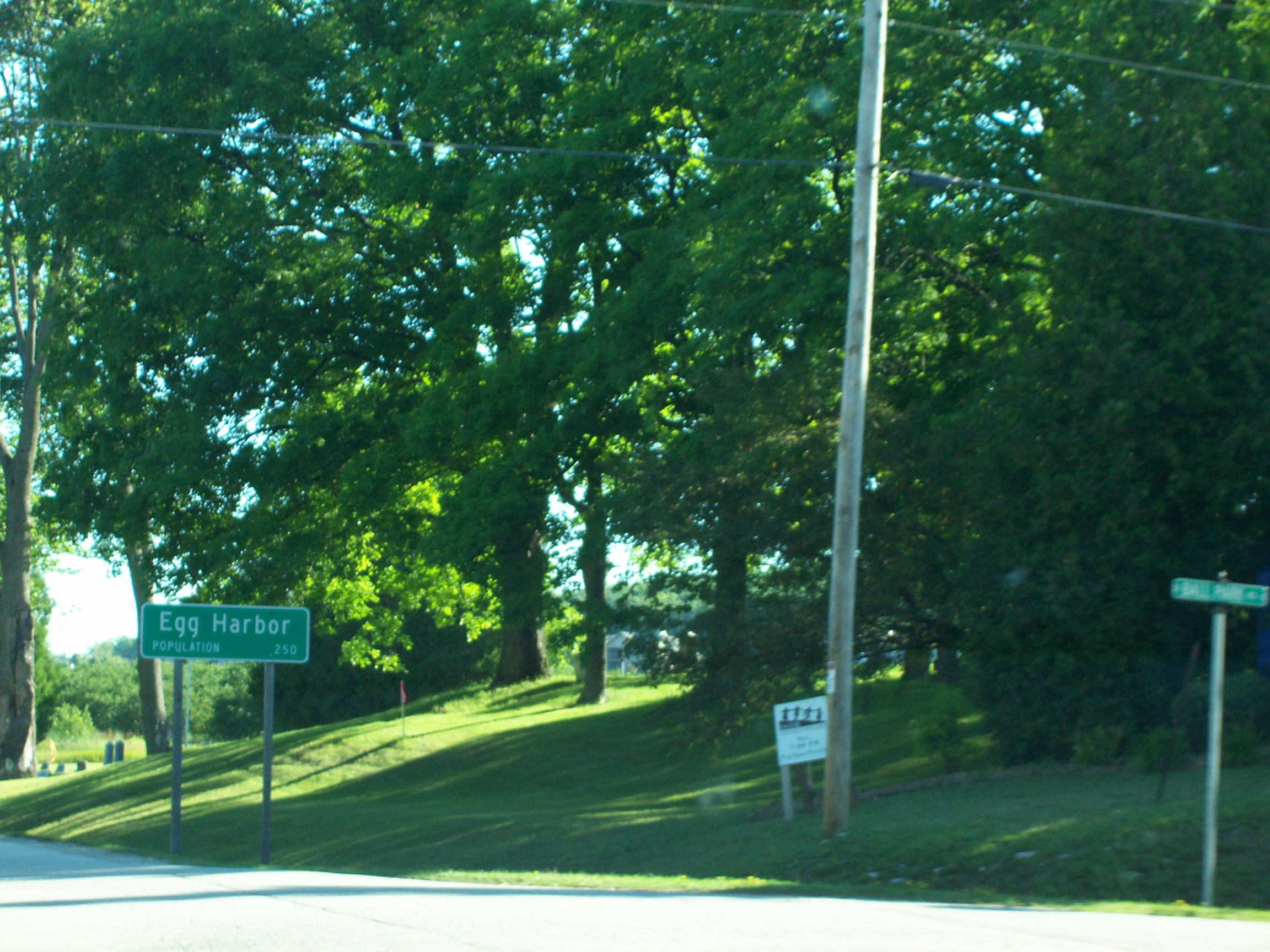 Looking north at the DOT welcome sign for the unincorporated community Egg Harbor, Wisconsin on Wisconsin Highway 42.